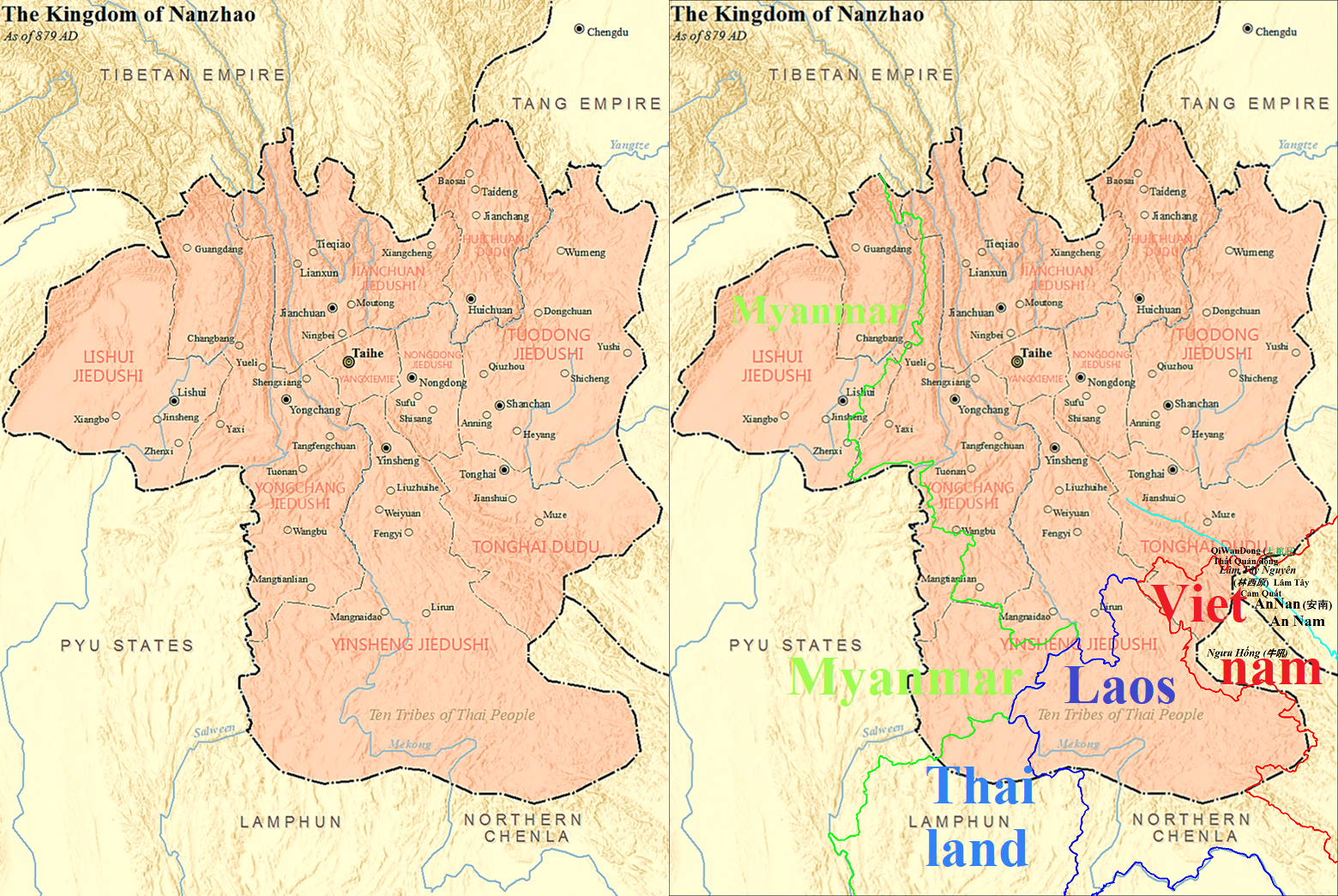 Map of the Kingdom of Nanzhao as of 879 AD